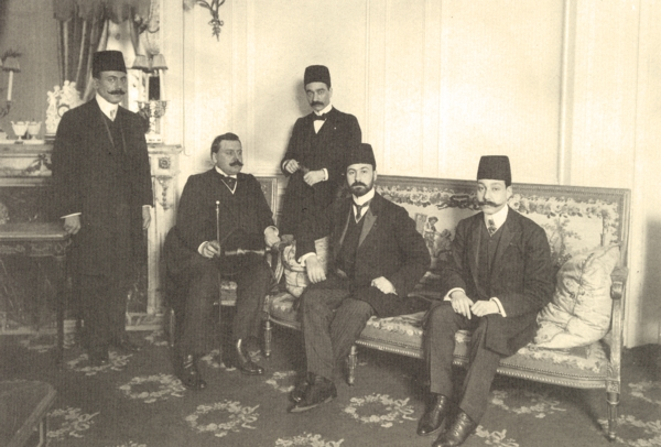 Hassan Pirnia, second from right, sitting on the sofa